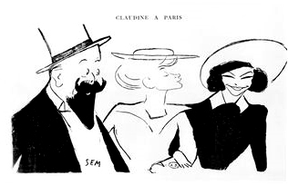 Caricature of Willy, Colette and Polaire.